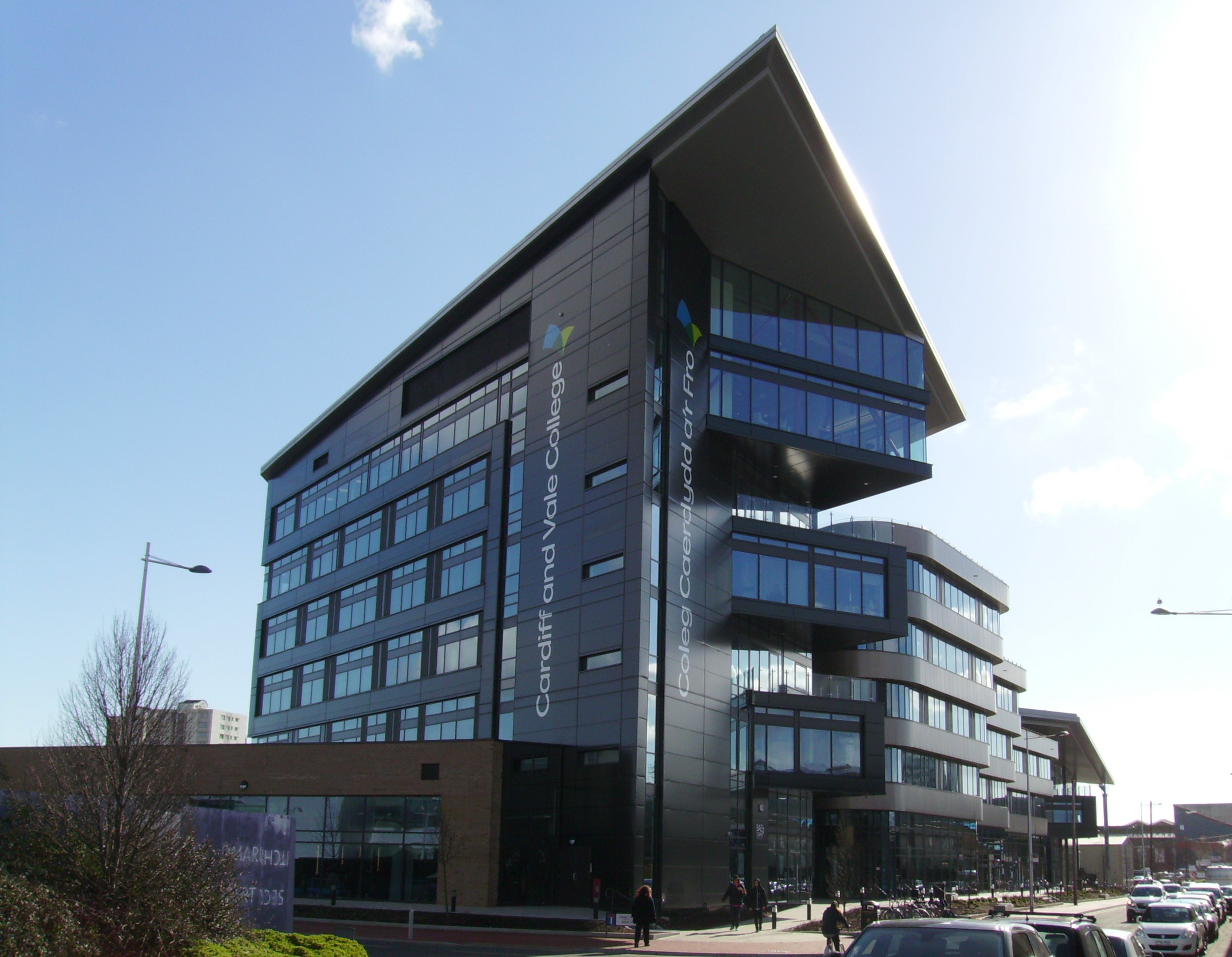 Cardiff and Vale College, Dumballs Road, Cardiff, Wales